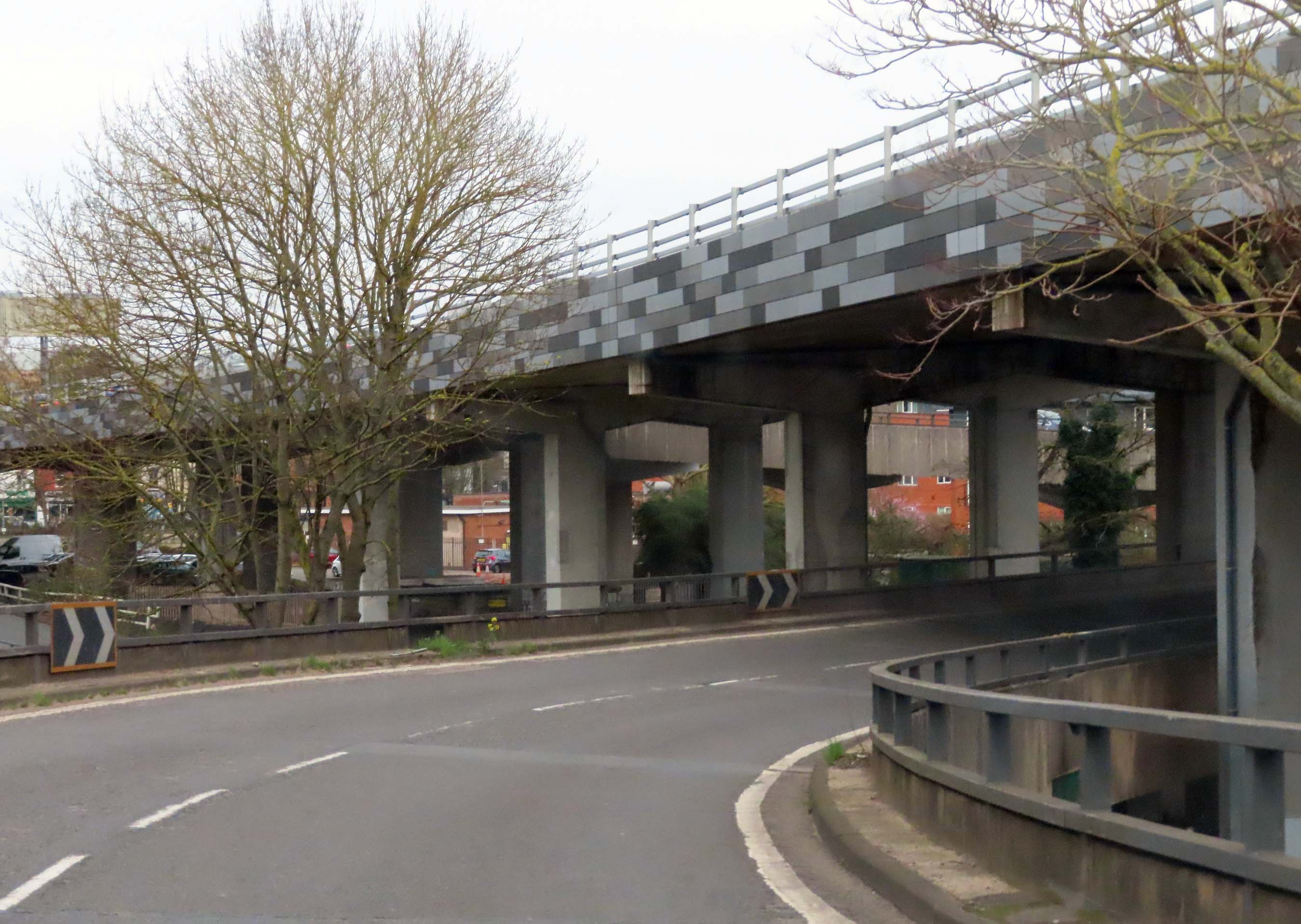 The A4053 runs under the Ringway Whitefriars